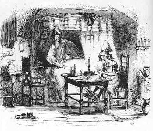 Illustration by Phiz for "The old curiosity shop", work by Charles Dickens.